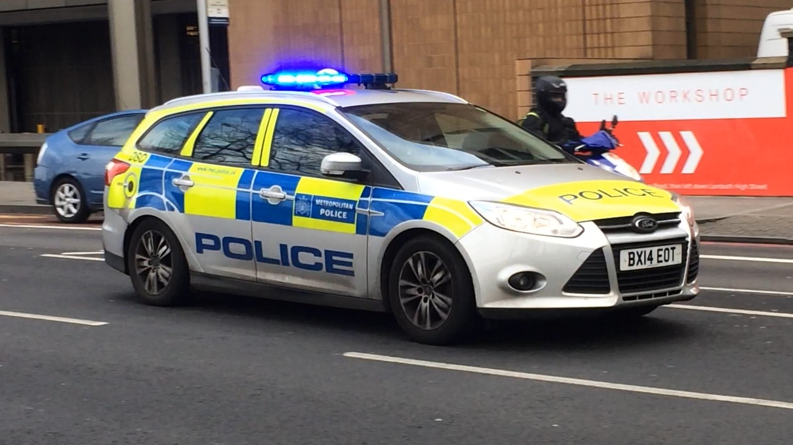 Metropolitan Police Ford Focus Incident Response Vehicle